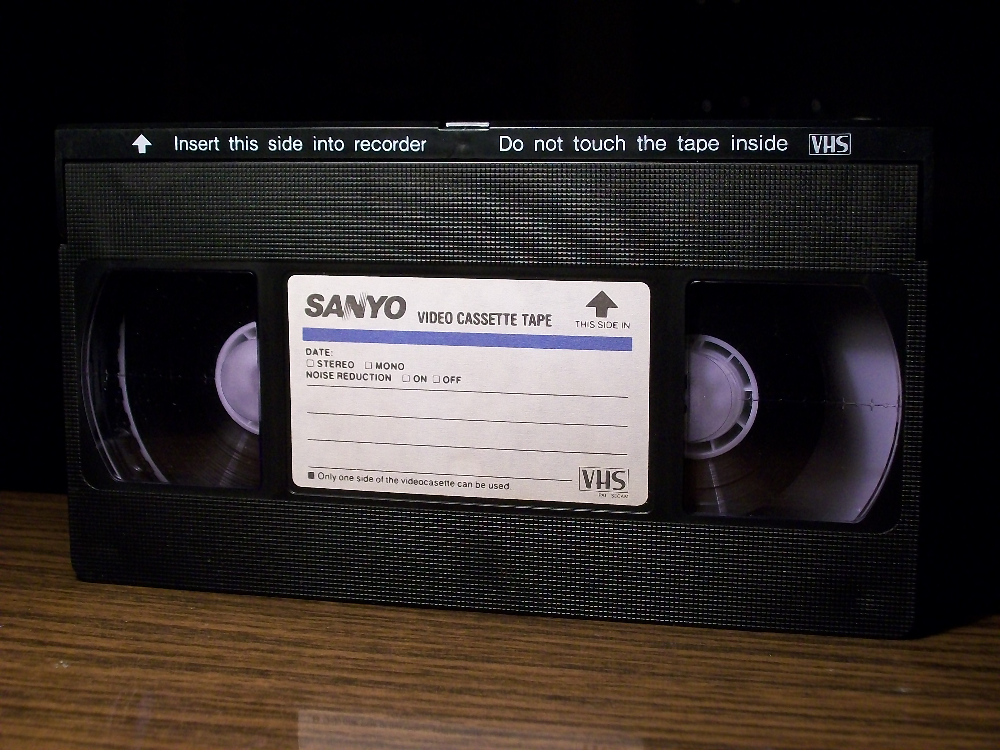 A Sanyo-branded VHS PAL/SECAM tape made by Funai Electric.